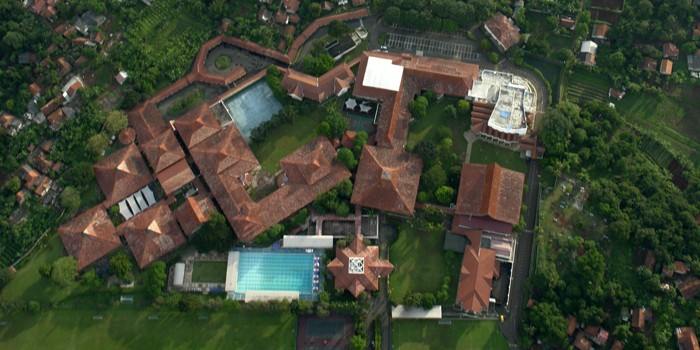 BISJCAMPUS